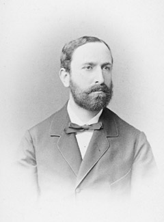 Eduard Hiller, German classical scholar (1844—1891)